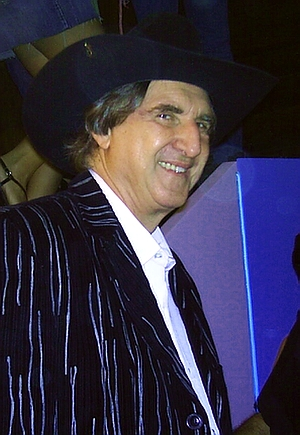 Brazilian singer and composer Sérgio Reis.